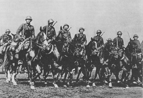 Czechoslovac dragoons